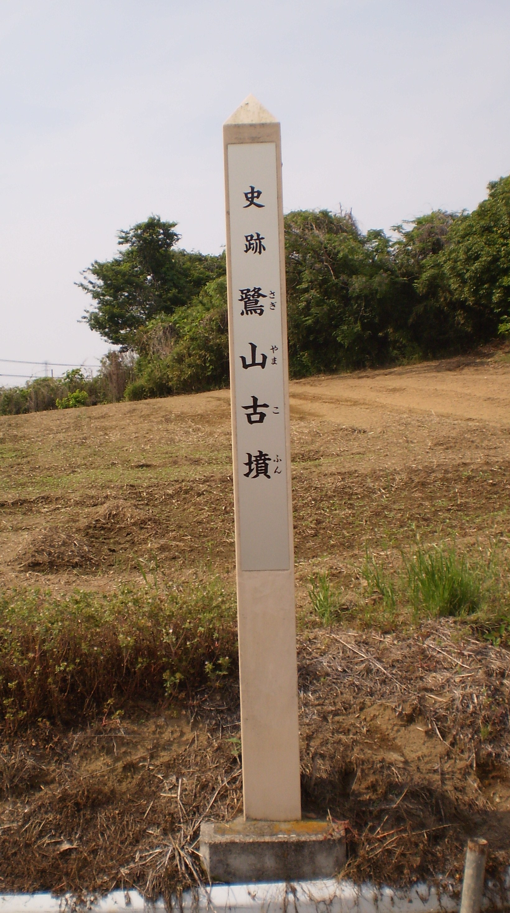 The front view of the signpole of Sagiyama Kofun tumulus,City of Honjyo,Saitama pref.